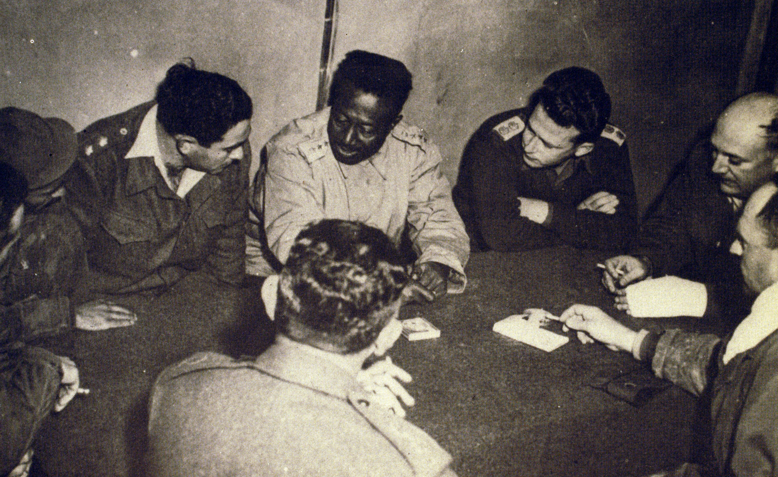 Brigadier-General Mahammed Said Taha Bey, known as 'The Tiger', negotiating the evacuation of Egyptian troops from the Faluja pocket at the stonghold of Iraq Suedan. On his left is Lieutenant-Colonel Yitzhak Rabin.